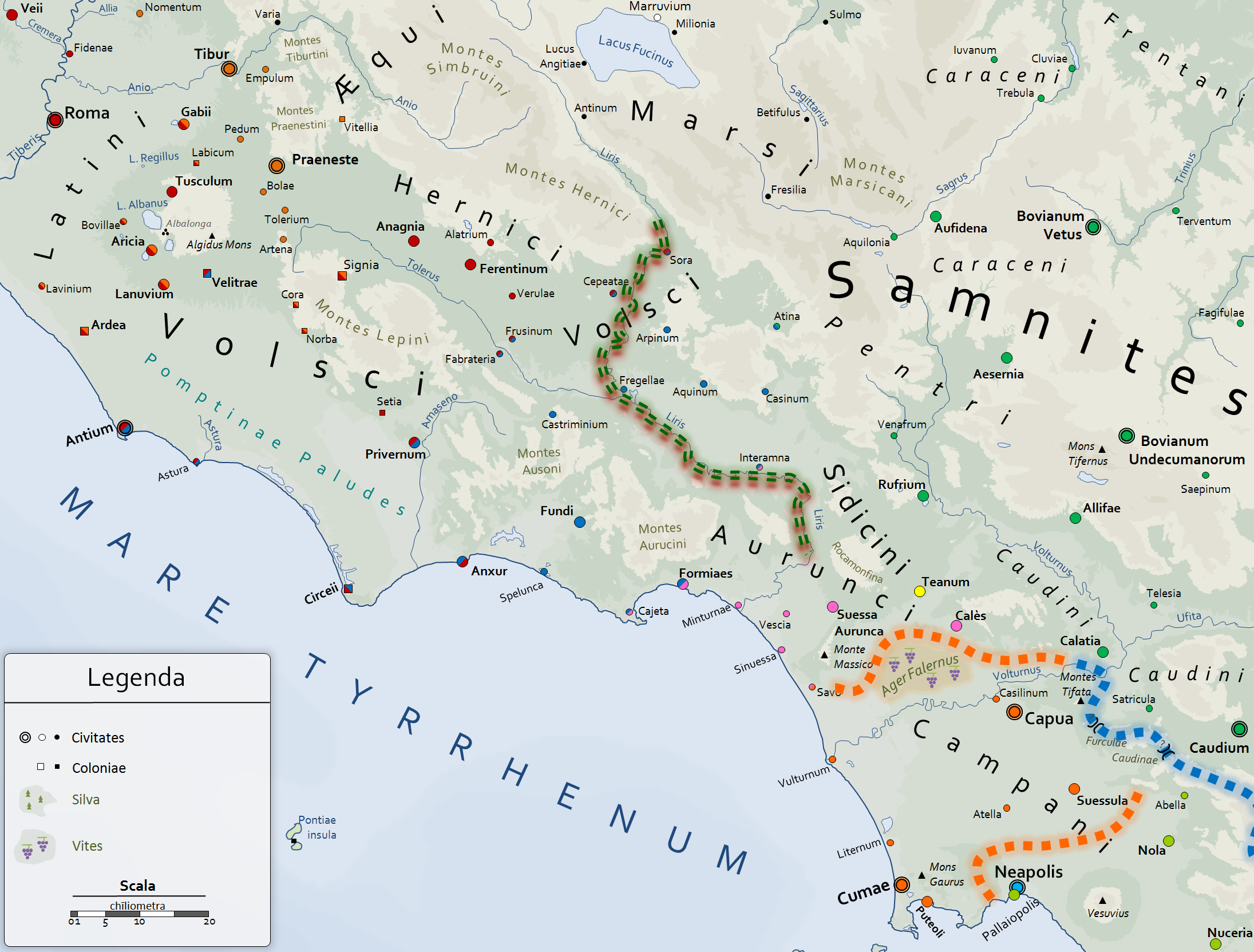 See Guerres romano-aurunces (345 - 334)#Contexte for the full legend/caption of the map.